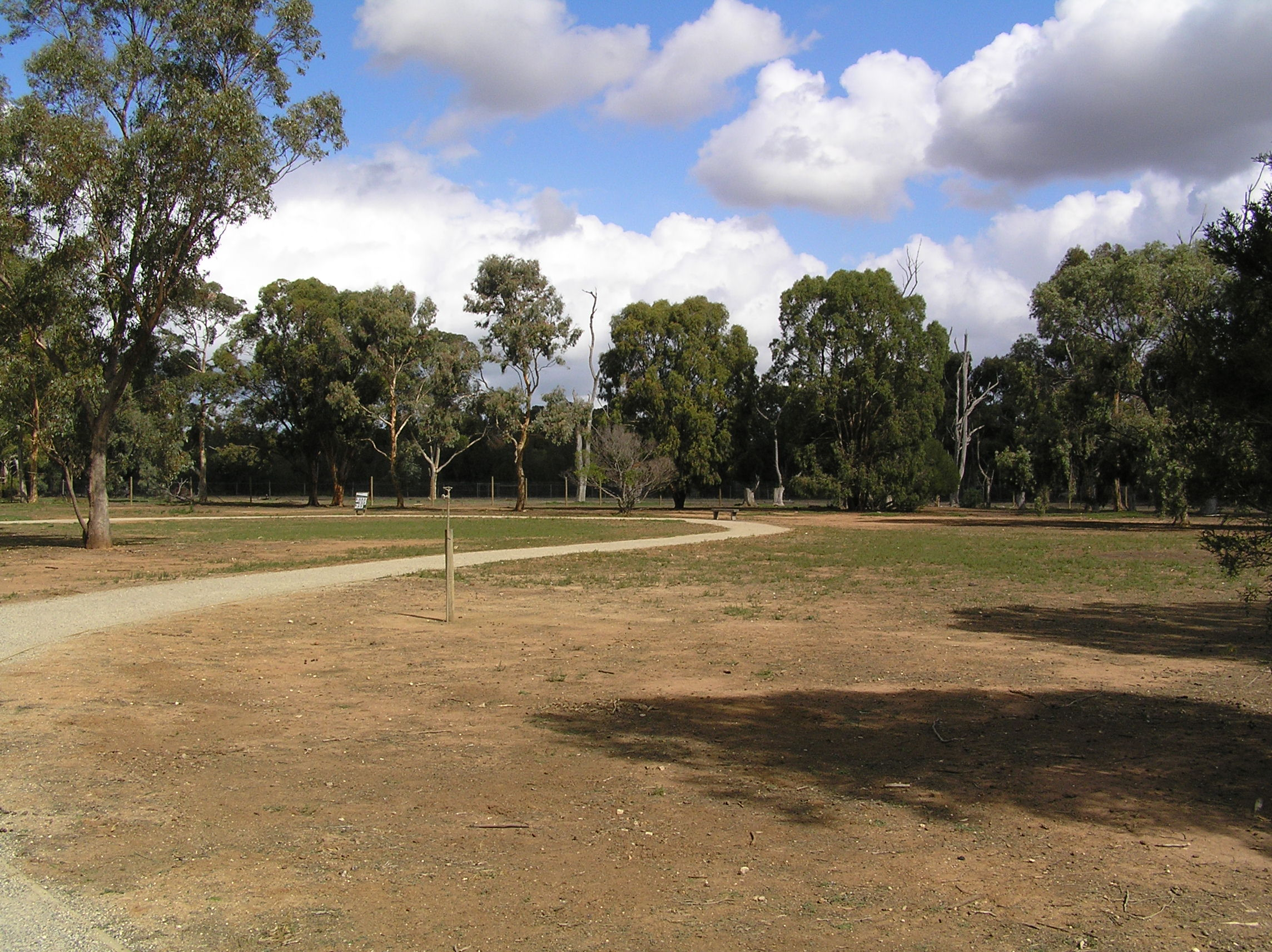 Landscape with Emus at Serendip, Victoria, Australia.